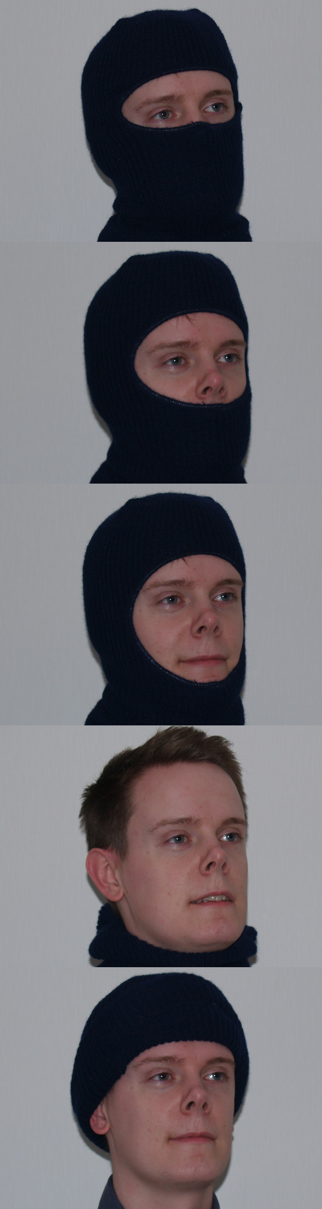 Five versions of the author wearing a balaclava in different ways.